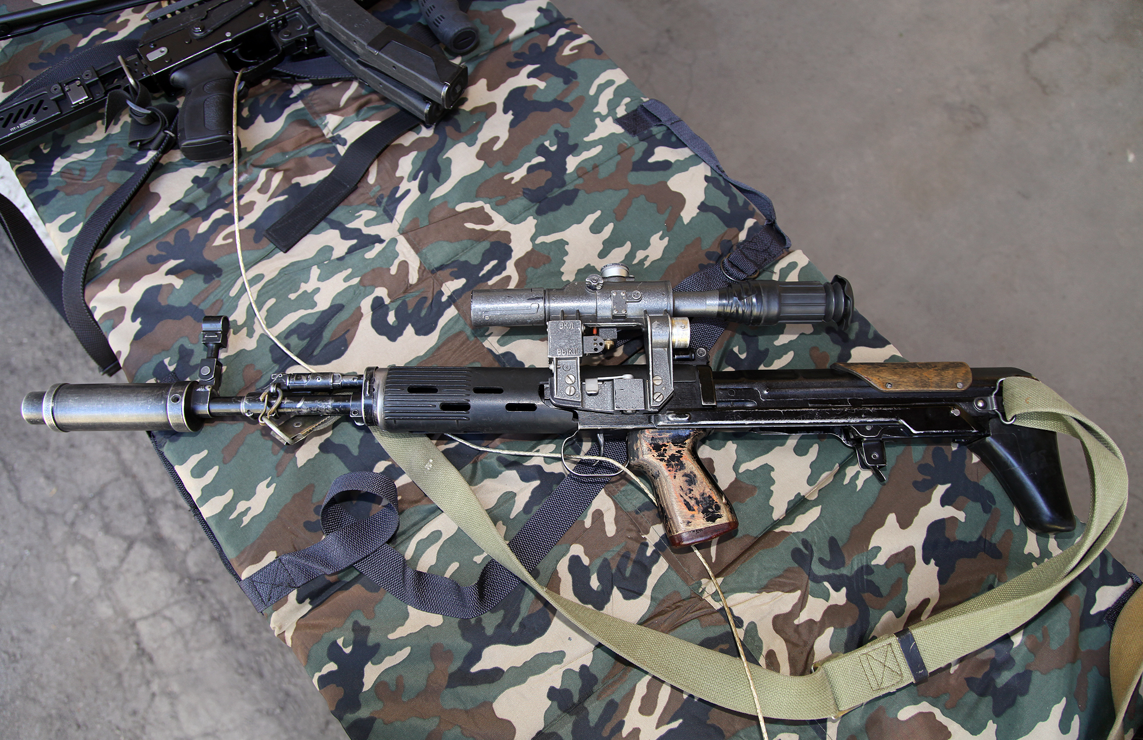 7.62x54 sniper rifle SVU